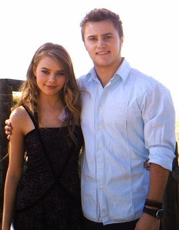 A photo of Mark Furze and Indiana Evans taken by myself (Cls14) in August 2006 whilst taking a break from filming Home and Away.